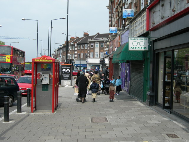 Stamford Hill N16 (1) This part of London (Stamford Hill) is home to many Orthodox Jews. Note the way the women and children are dressed in this photo -- adults with heads covered, all females modestly dressed, wearing skirts.